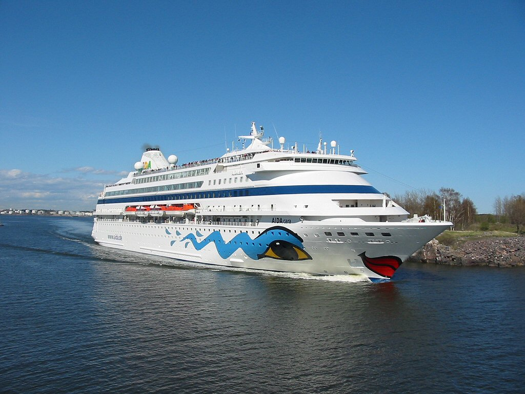 M/S AIDAcara leaving from Helsinki. Photo by Antti Havukainen IMO Number: 9112789 MMSI Number: 247117300 Callsign: IBNR Length: 193 m Beam: 32 m